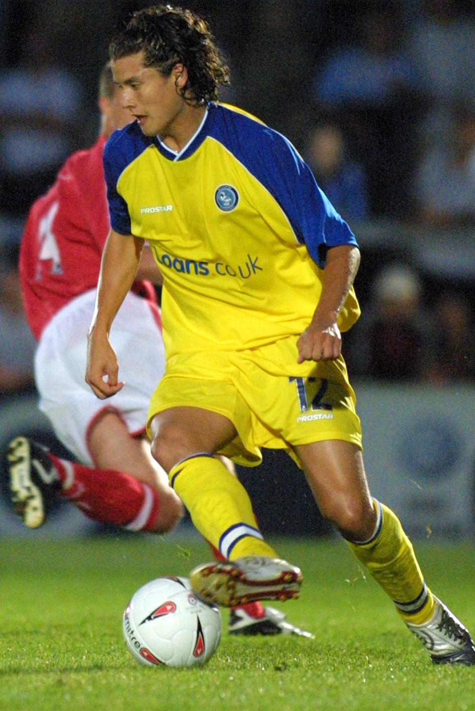 Jonny Dixon in action for Wycombe Wanderers FC vs Charlton Athletic FC